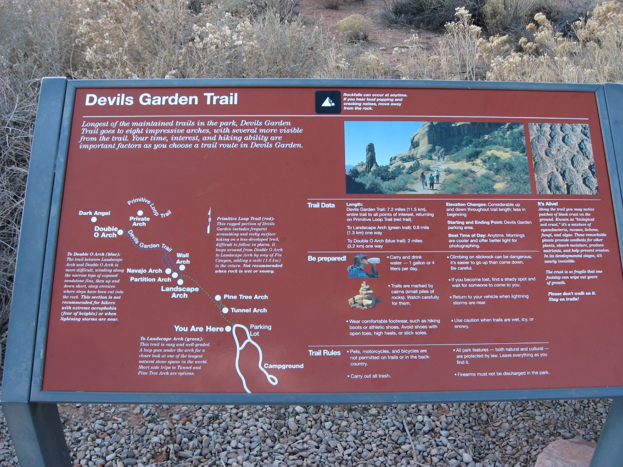 Devil's Garden is an area of Arches National Park, located near Moab, Utah, that features a series of rock fins that have broken out of the earth due to erosion and produce many spectacular views. The Devil's Garden Trail that travels throughout Devil's Garden is just over 7 miles (11 km) long and leads to the Tunnel Arch, Pine Tree Arch, Landscape Arch, Partition Arch, Navajo Arch, Double O Arch, Dark Angel monolith, Private Arch and Fin Canyon. Wall Arch, before its collapse in 2008, was also located here. Black Arch is visible as a dark outline from the main trail and can be reached on an unmarked sidetrack. The trailhead is at the end of the main road in Arches National Park. A campground and amphitheater are also available at the site.